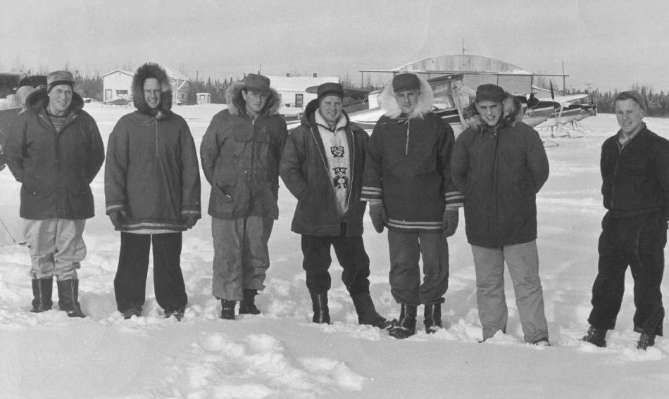 Founder of Lamb Air, Tom Lamb (L), with his sons, Greg, Donald, Dennis, Jack, Doug and Conrad. Taken at the Grace Lake seaplane base.